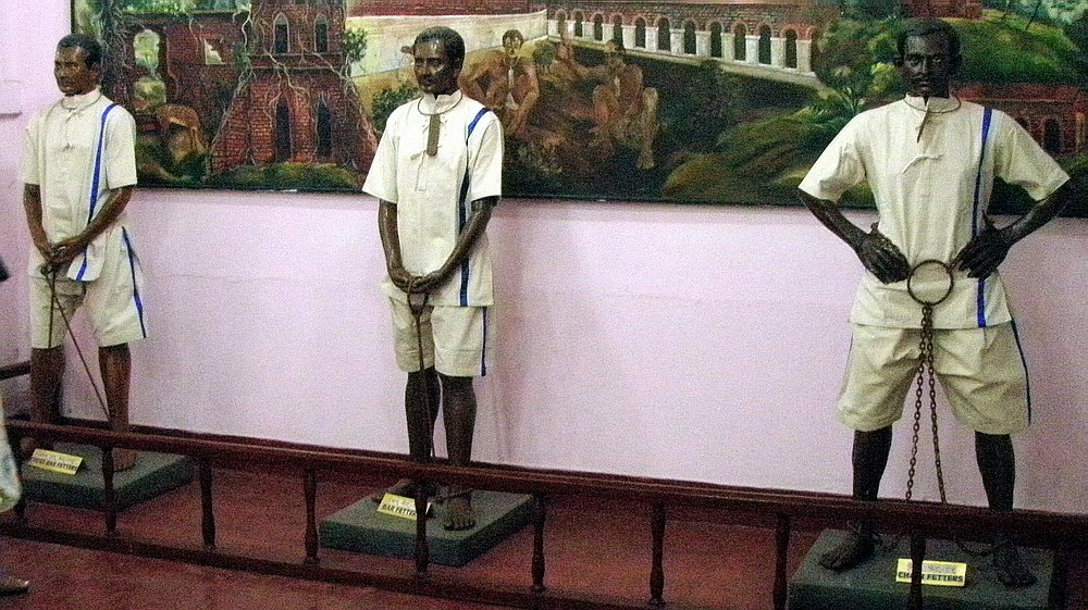 Prison inmates in India, wearing prison clothing, barefooted and shackled